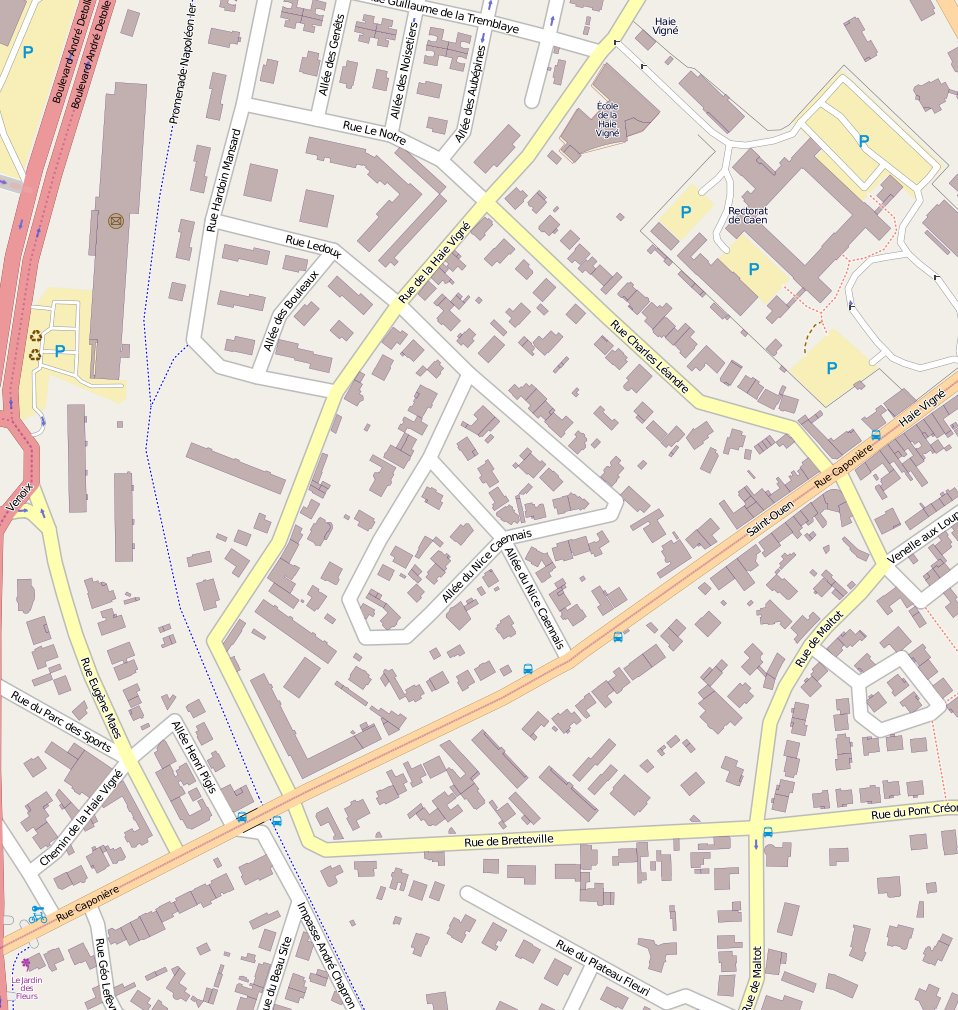 NiceCaennais This map of Caen was created from OpenStreetMap project data, collected by the community. This map may be incomplete, and may contain errors. Don't rely solely on it for navigation.